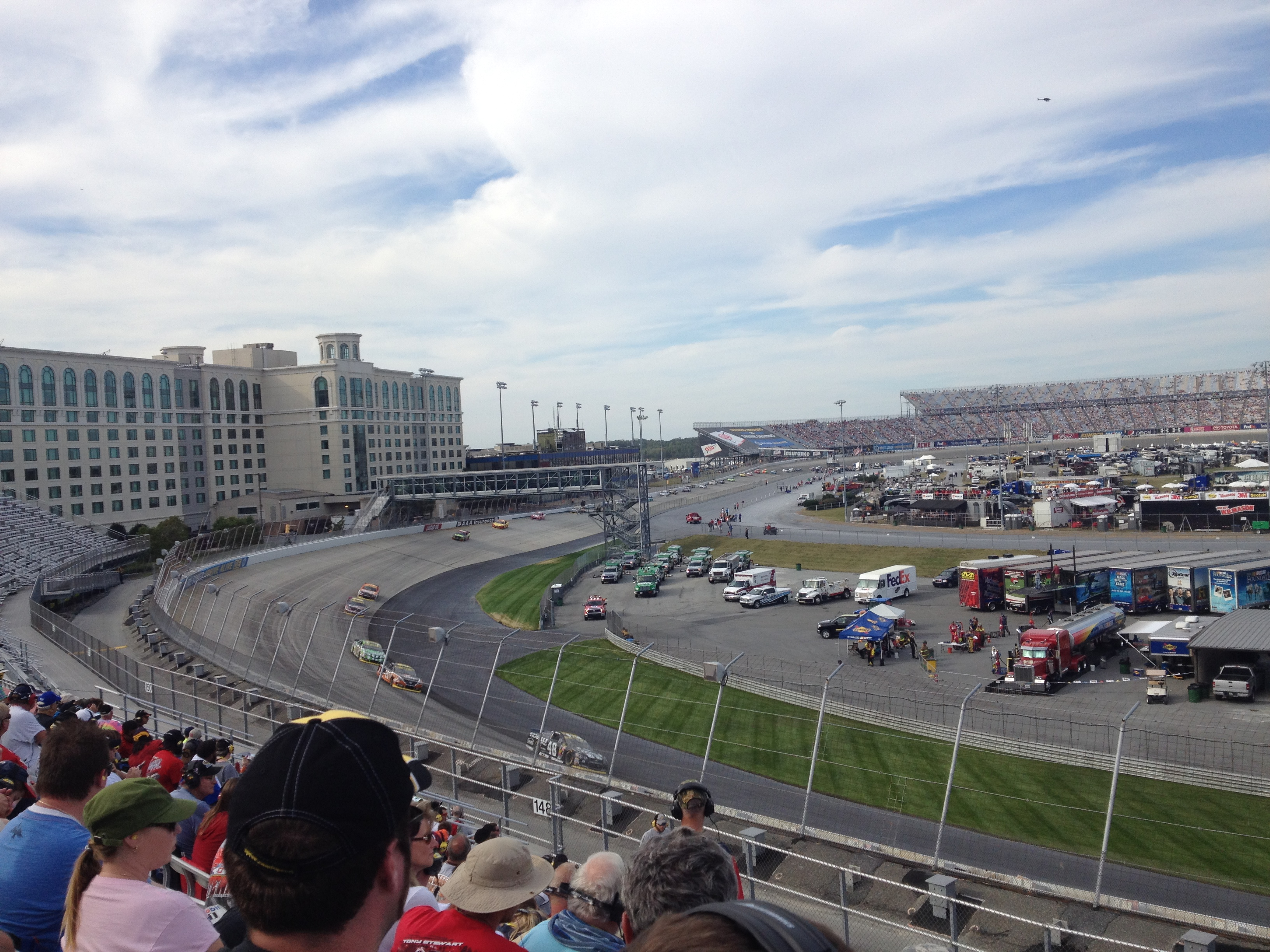 The 2014 AAA 400 at Dover International Speedway viewed from turn 3.